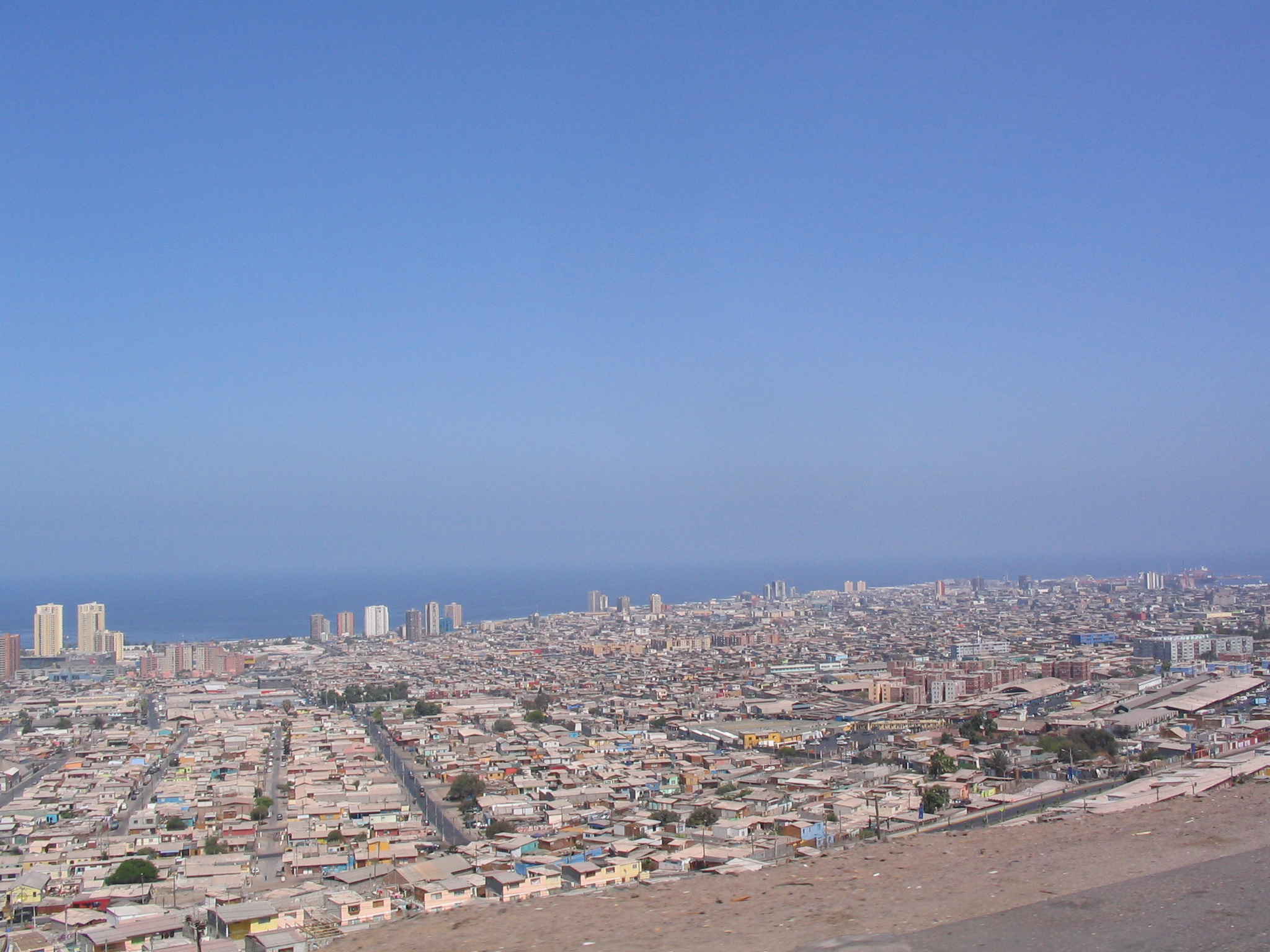 Taken on the way to Humberstone.